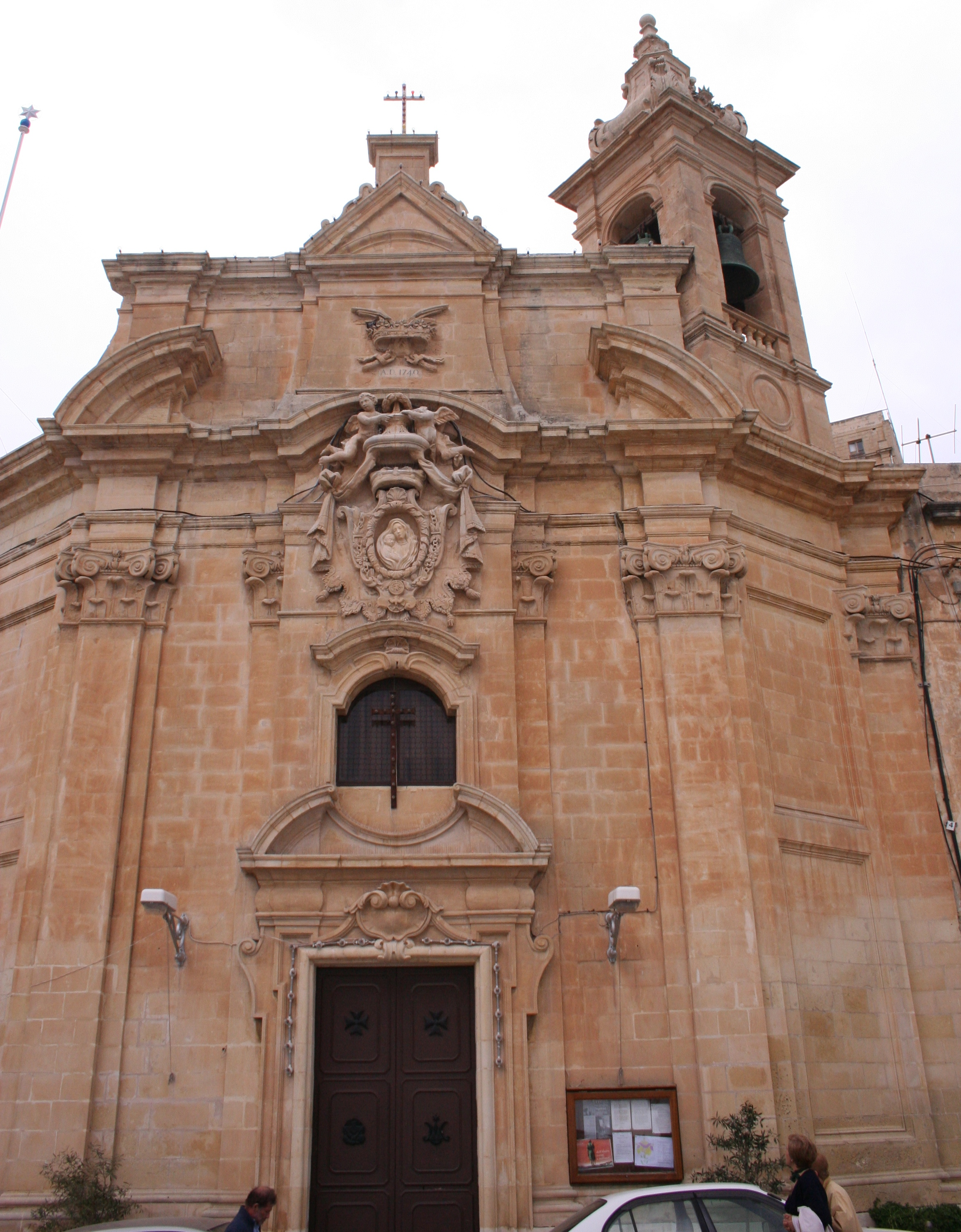 Ta'Liesse Church, Malta